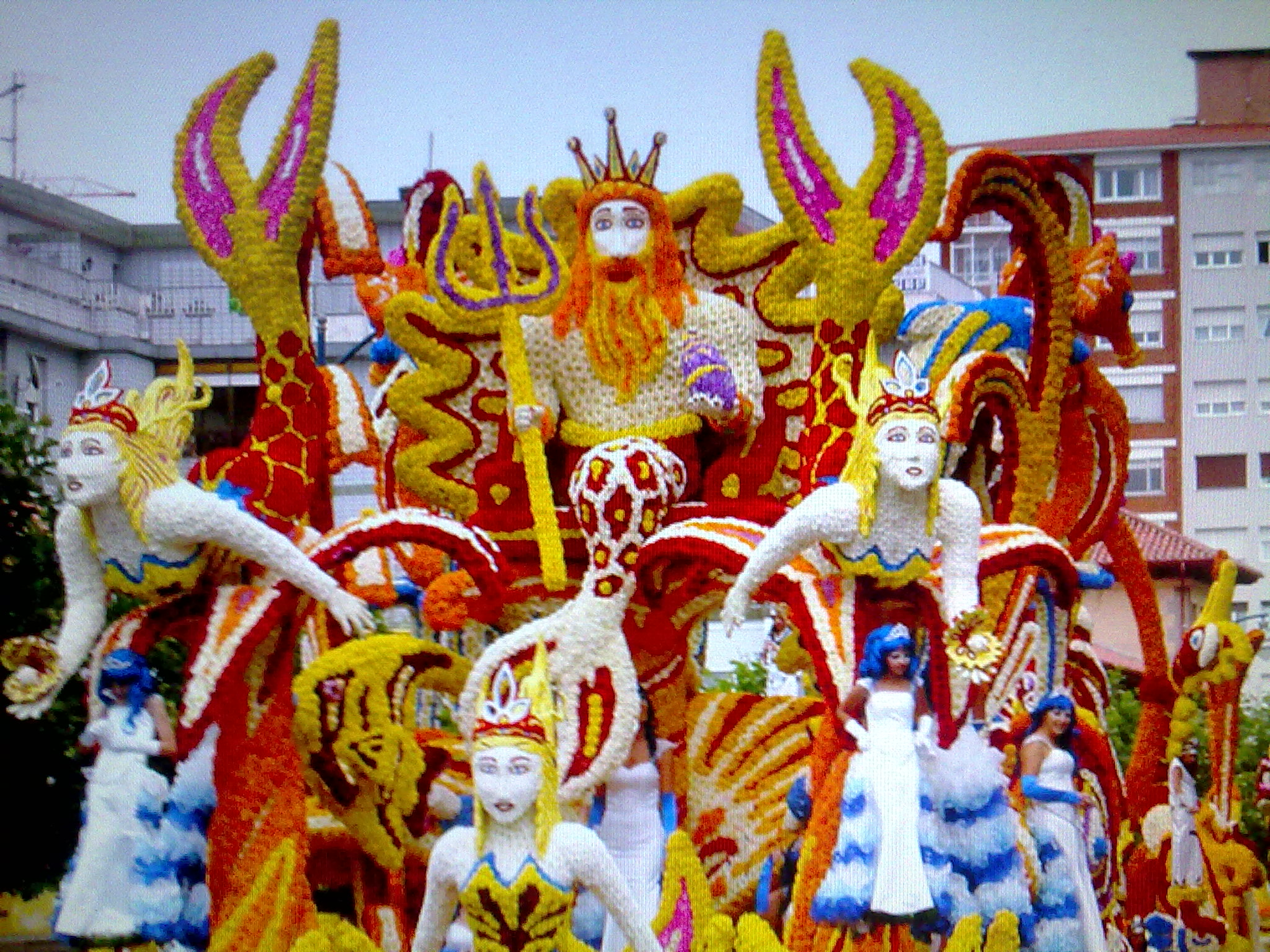 fiesta de laredo: batalla de flores